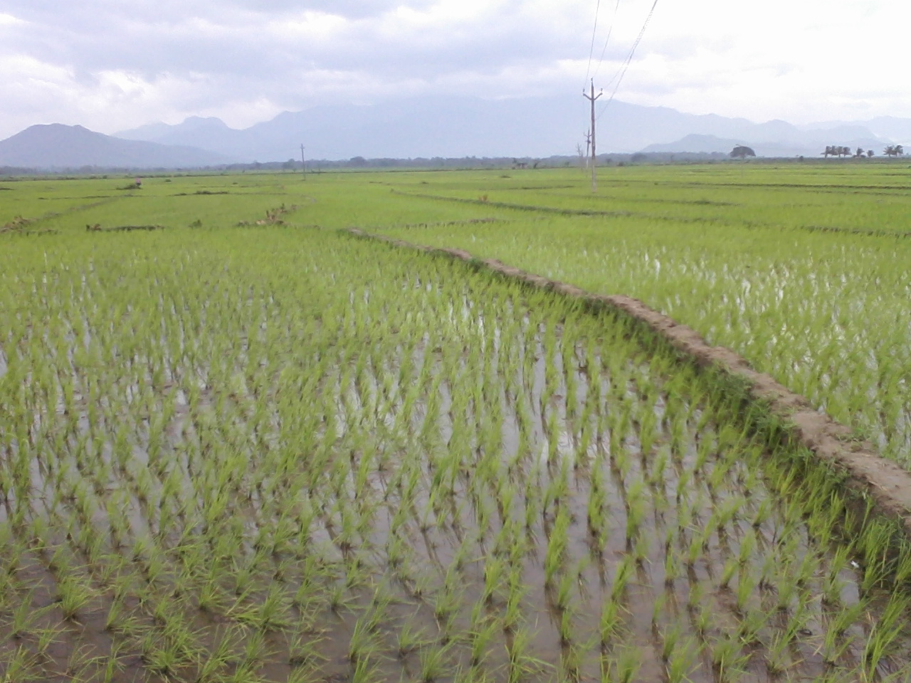 karthalipalem